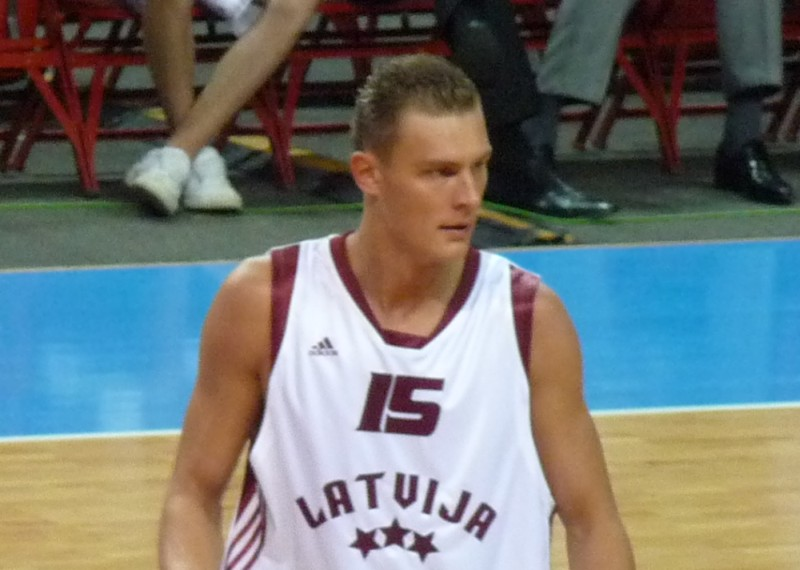 Andris Biedriņš (b.1986). Picture taken during friendly match between Latvia and Sweden.